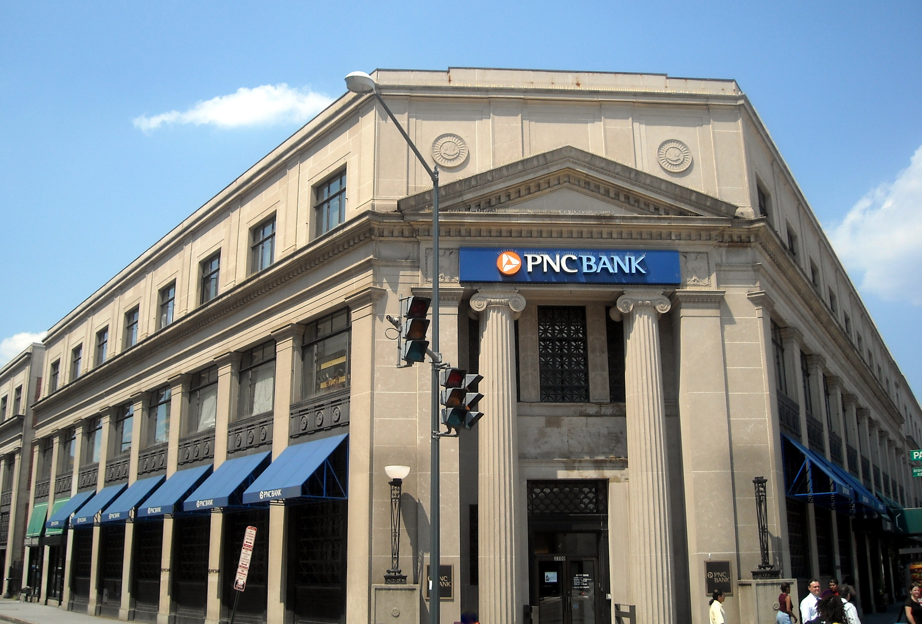 The Riggs-Tompkins Building (also known as The Riggs National Bank, Fourteenth and Park Road Branch) located at 3300 14th Street, NW in the Columbia Heights neighborhood of Washington, D.C. The Classical Revival building was constructed in 1922 and designed by George N. Ray. It currently serves as a PNC Bank branch. On January 5, 1987 the Riggs-Tompkins Building was added to the National Register of Historic Places. Its 2009 property value is $19,045,000.